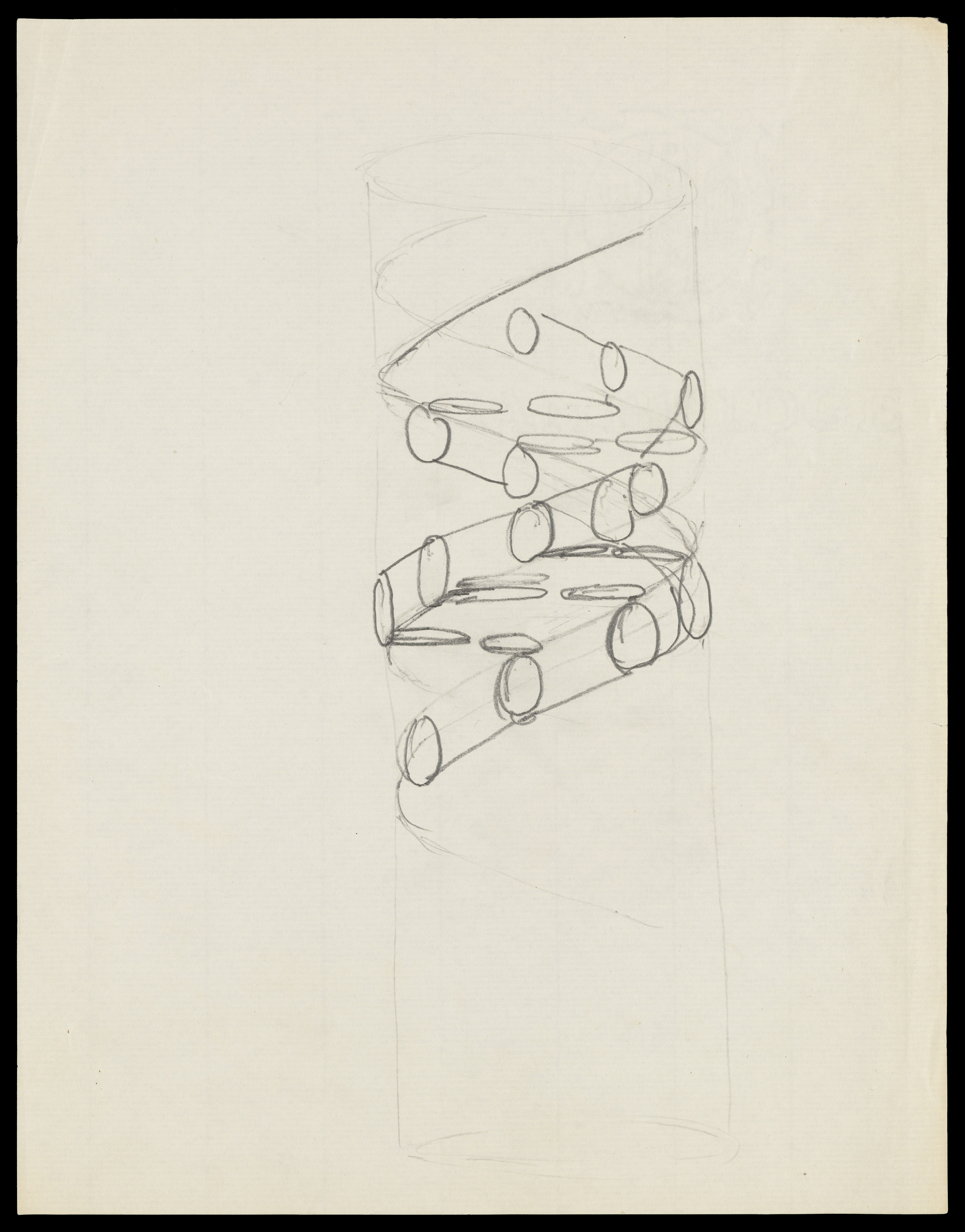 Pencil sketch of the DNA double helix by Francis Crick. It shows a right-handed helix and the nucleotides of the two anti-parallel strands. Archives & Manuscripts Keywords: DNA; Molecular Biology; Nucleic Acids; Nobel Prizes; DNA50; Francis Harry Compton Crick; Genetics; Nucleic acid; Base Pairing